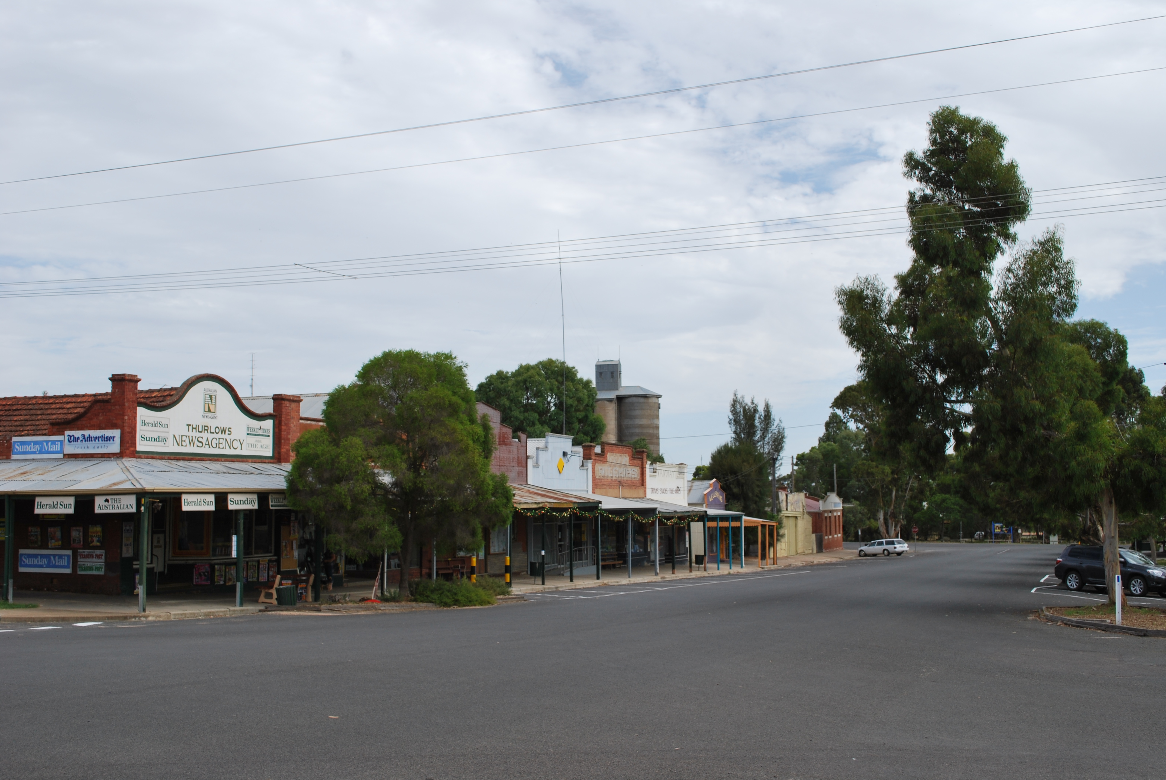 Reed St in Murrayville, Victoria, looking north.